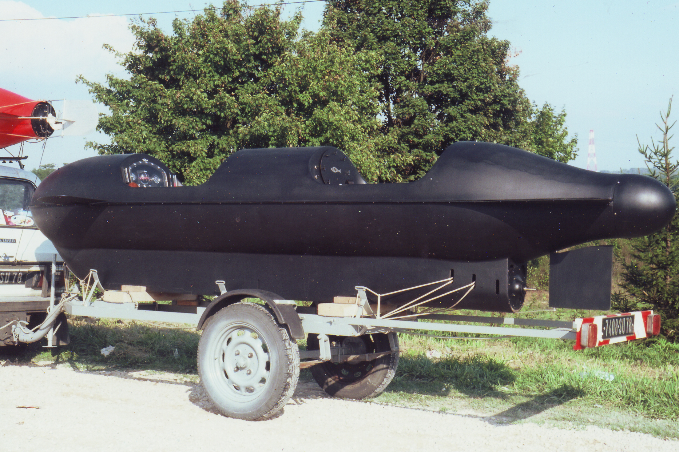 SVD Mark III